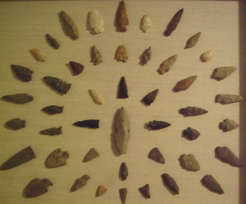 A collection of North American stone projectiles